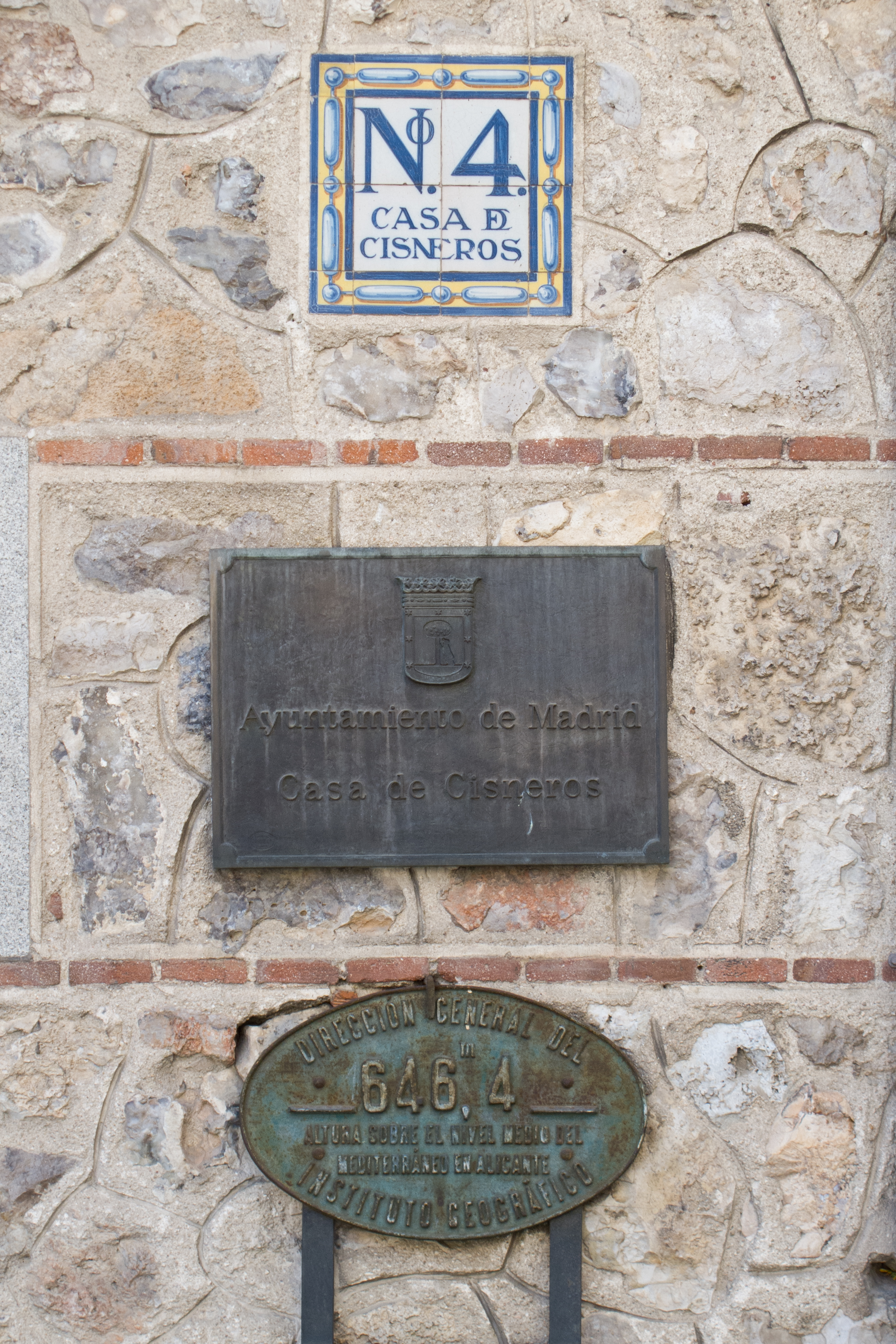 House of Cisneros, Plaza de la Villa, Madrid, Spain.